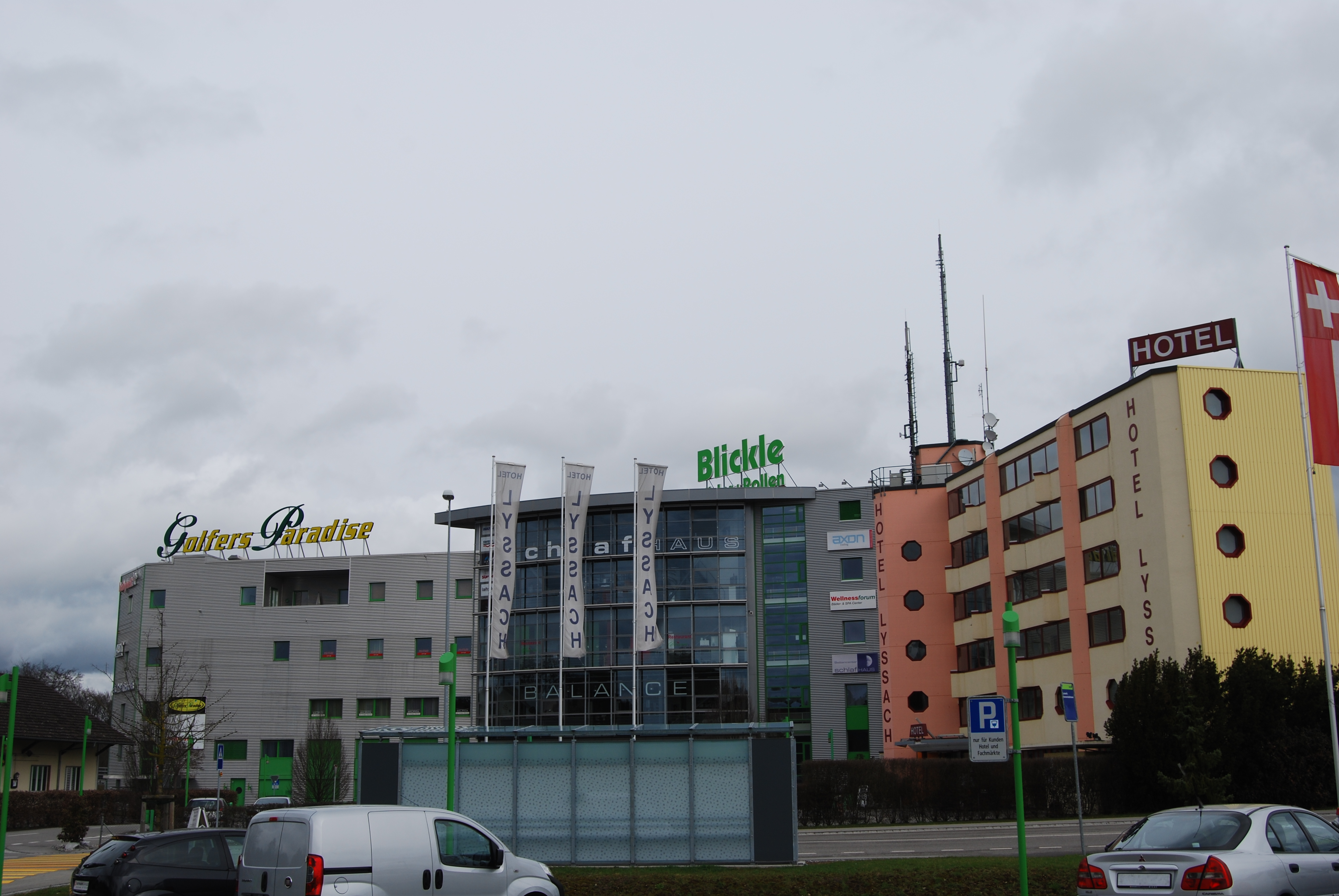 Lyssach, canton of Bern, SwitzerlandEsperanto: Lyssach, Kantono Berno, Svislando